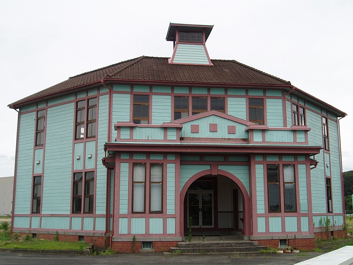 Ruins of Tottori Agricultural College (one of the predecessors of Tottori University), located in Minami-Yoshikata, Tottori, Tottori Prefecture, Japan.